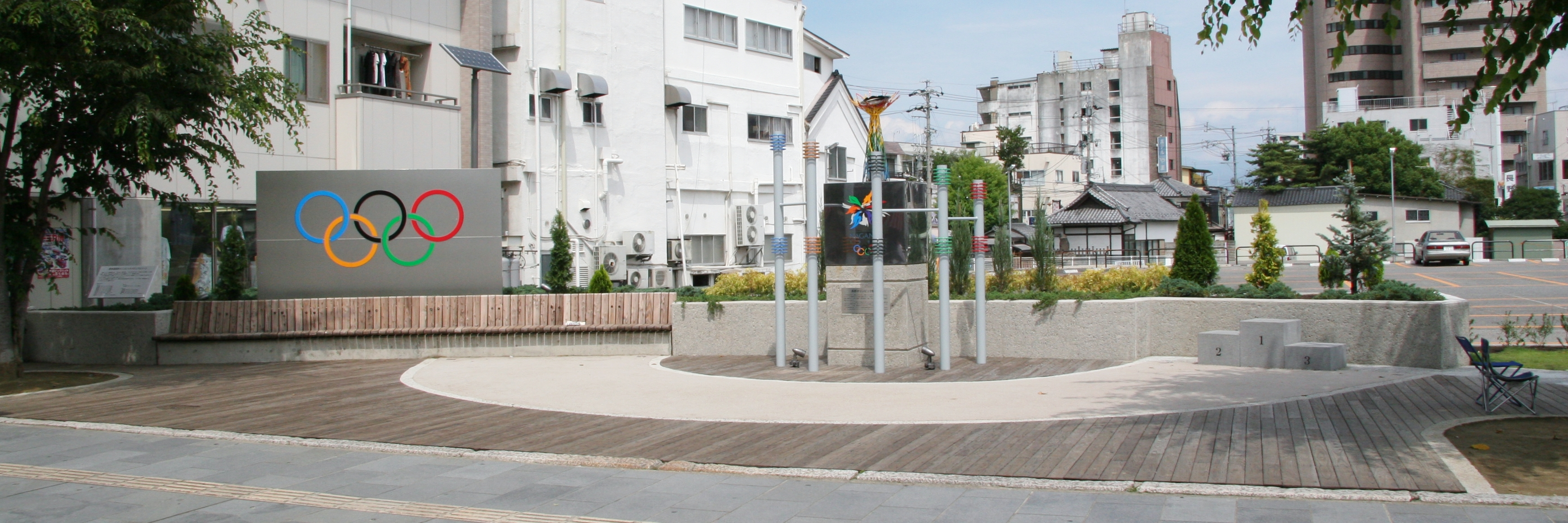 Nagano Olympic Memorial Park